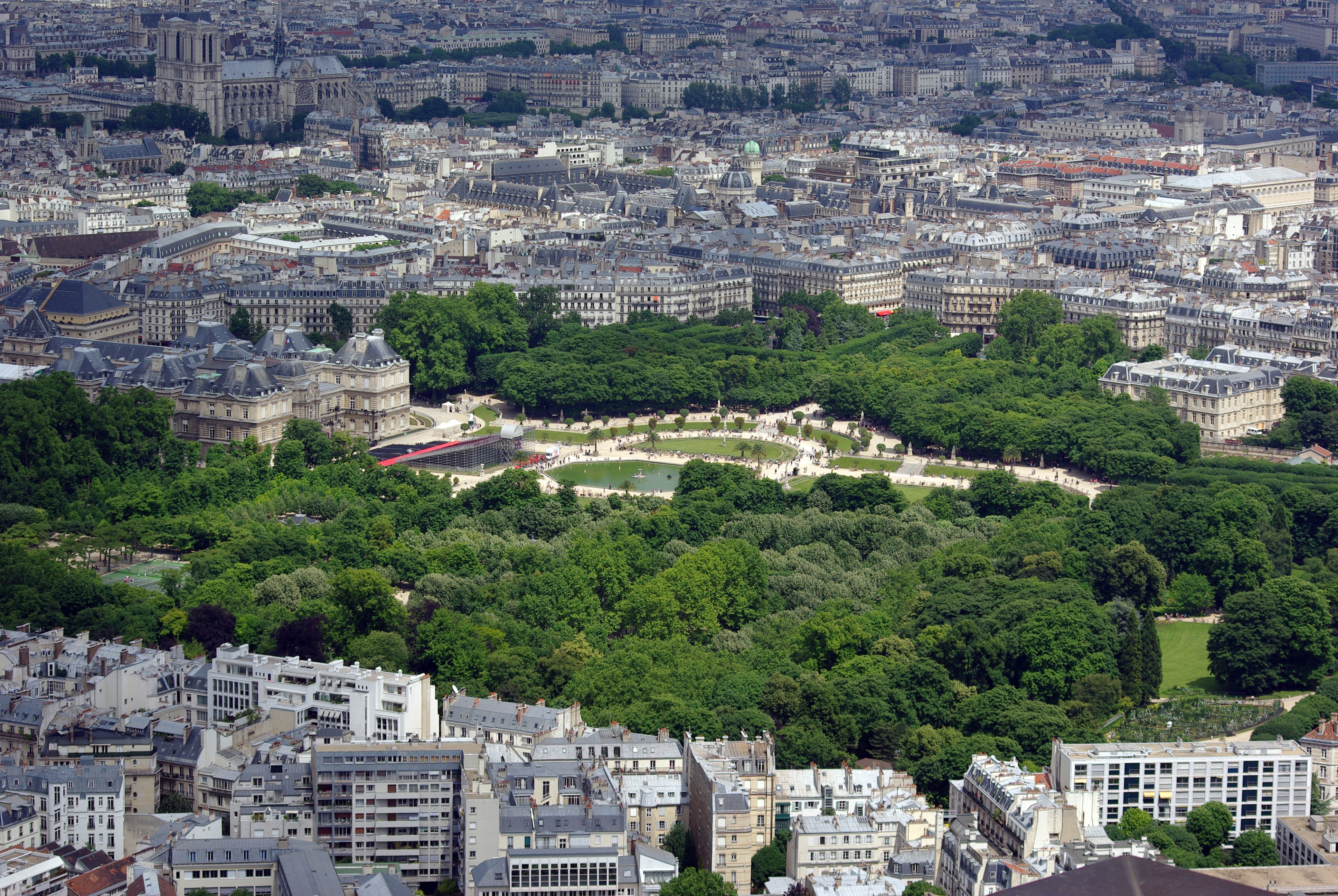 The Luxembourg gardens as seen from the Montparnassse tower, Paris